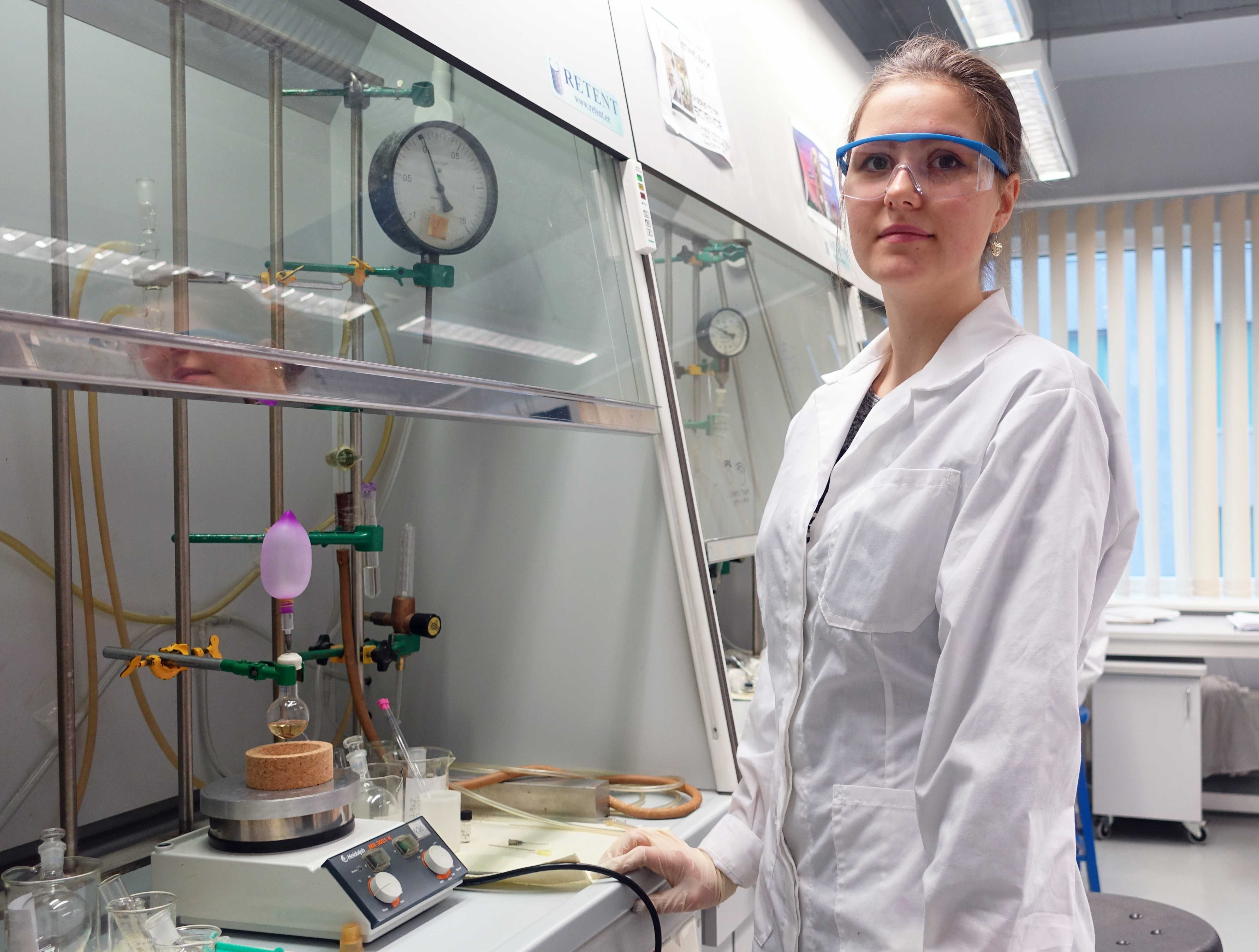 Grete Kask, organic chemist in Tallinn University of Technology